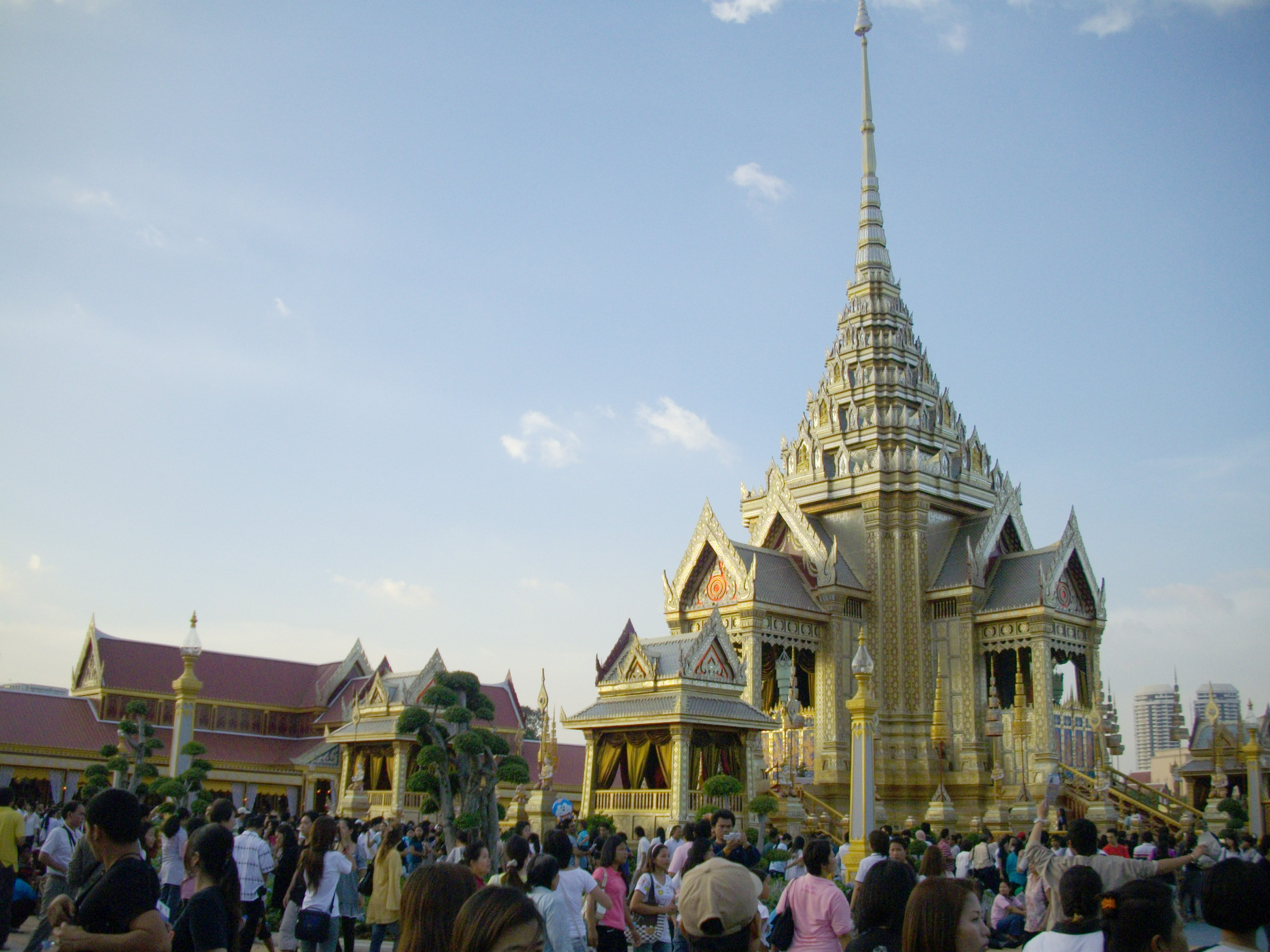 The Royal Crematorium ("Phra Meru") at Sanam Luang, view from southeast side. This building was used in the Royal Cremation of Her Royal Highness Princess Galyani Vadhana, King Rama IX's Sister, in 15 November 2008. This picture also show The Royal Merit-Making Pavilion (Phra Thinang Songtham).